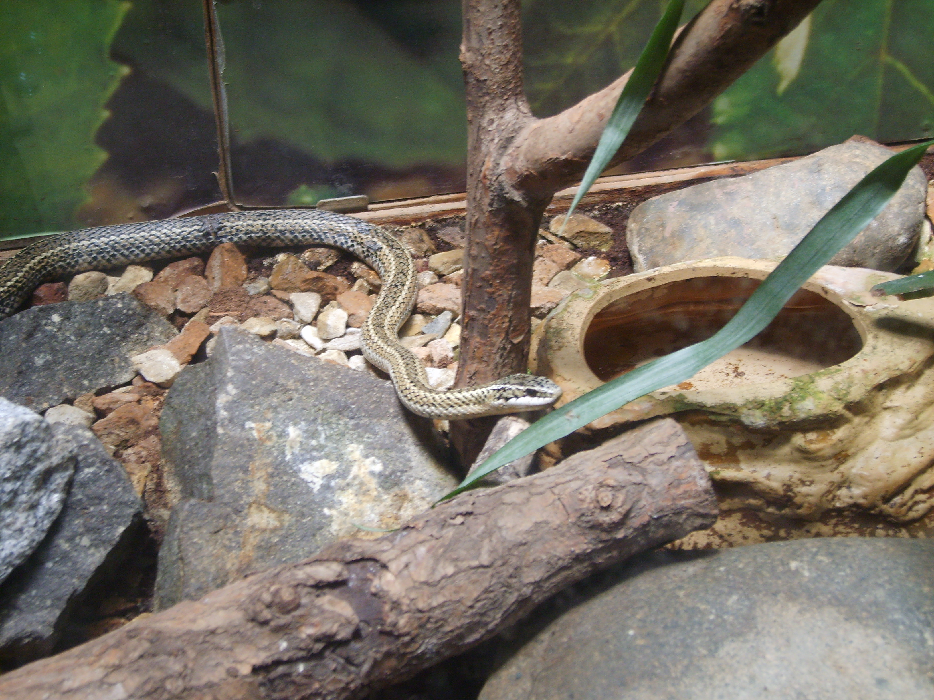 long-tailed snake